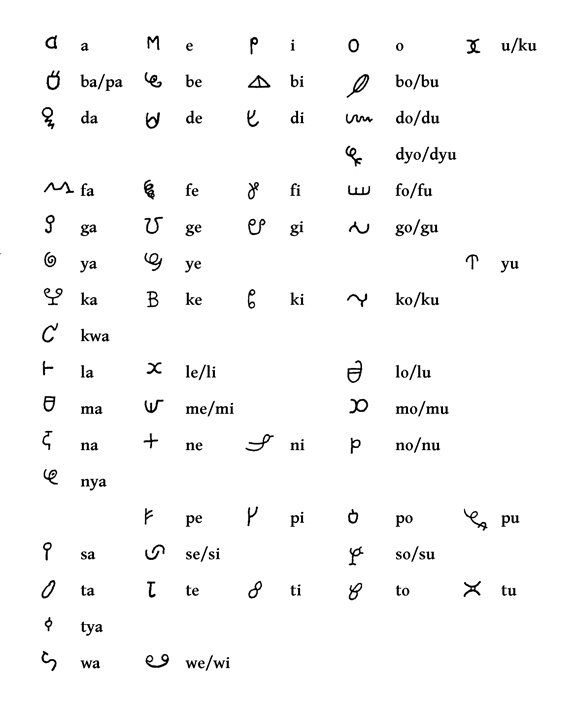 The Afaka syllabary as recorded by Gonggrijp in 1968.